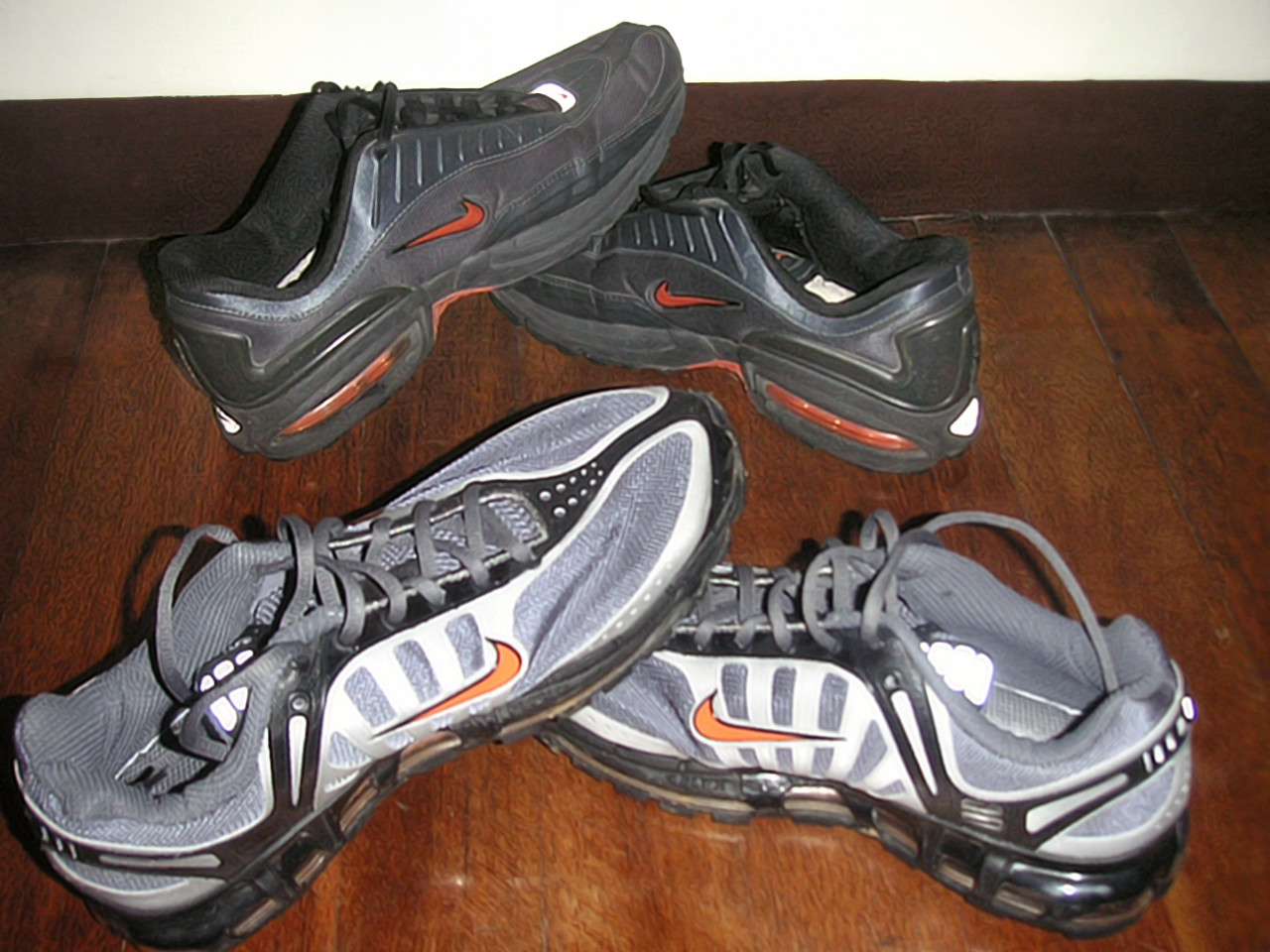 Author's own picture two pair of Nike Air Max.